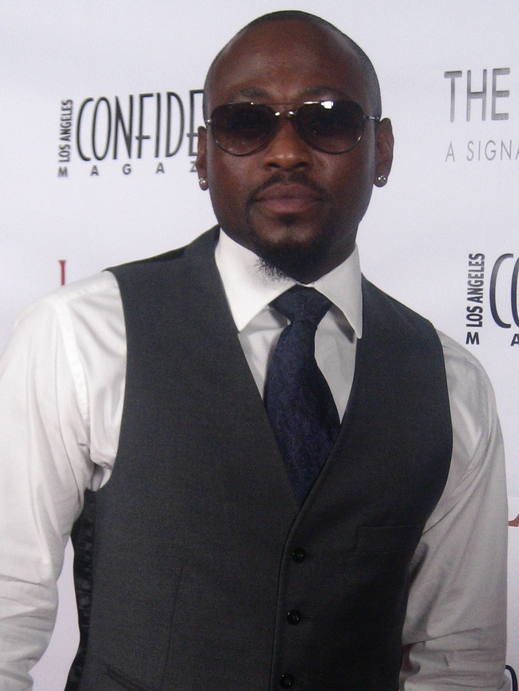 L.A. Confidential/Belvedere/Water Club/Sapporo Emmy Party